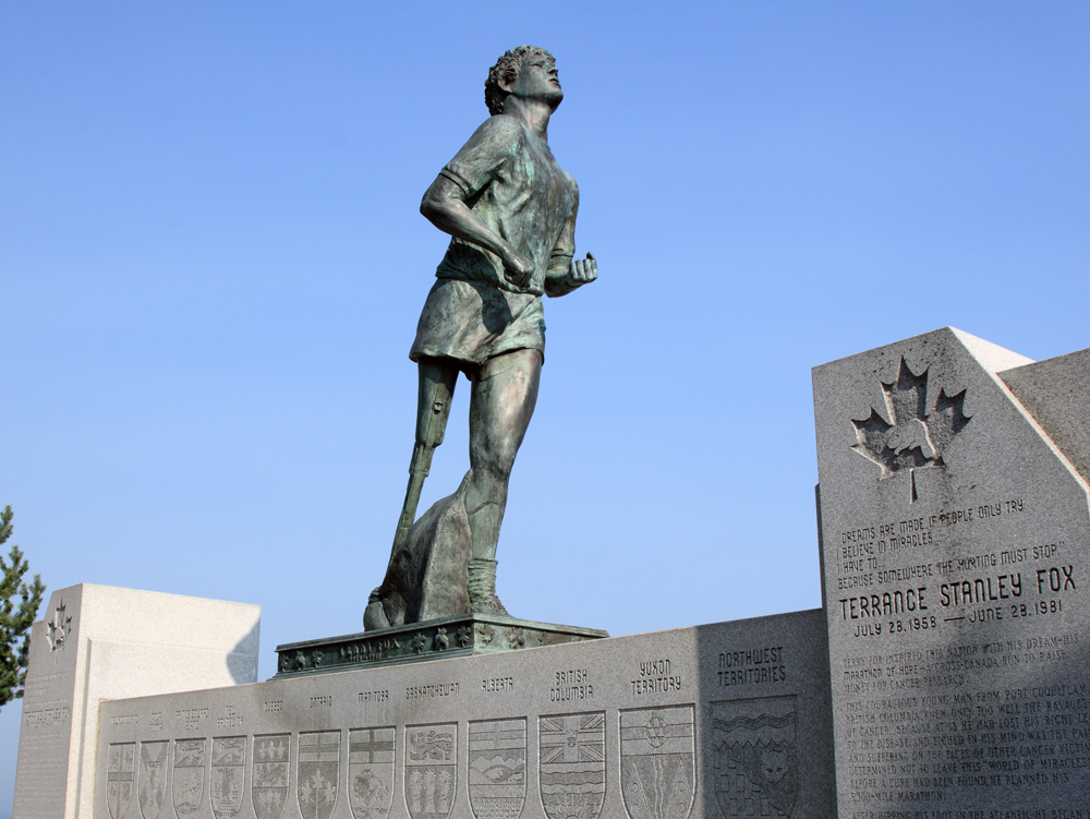 Statue of marathon runner Terry Fox overlooking Thunder Bay and the Trans-Canada Highway.